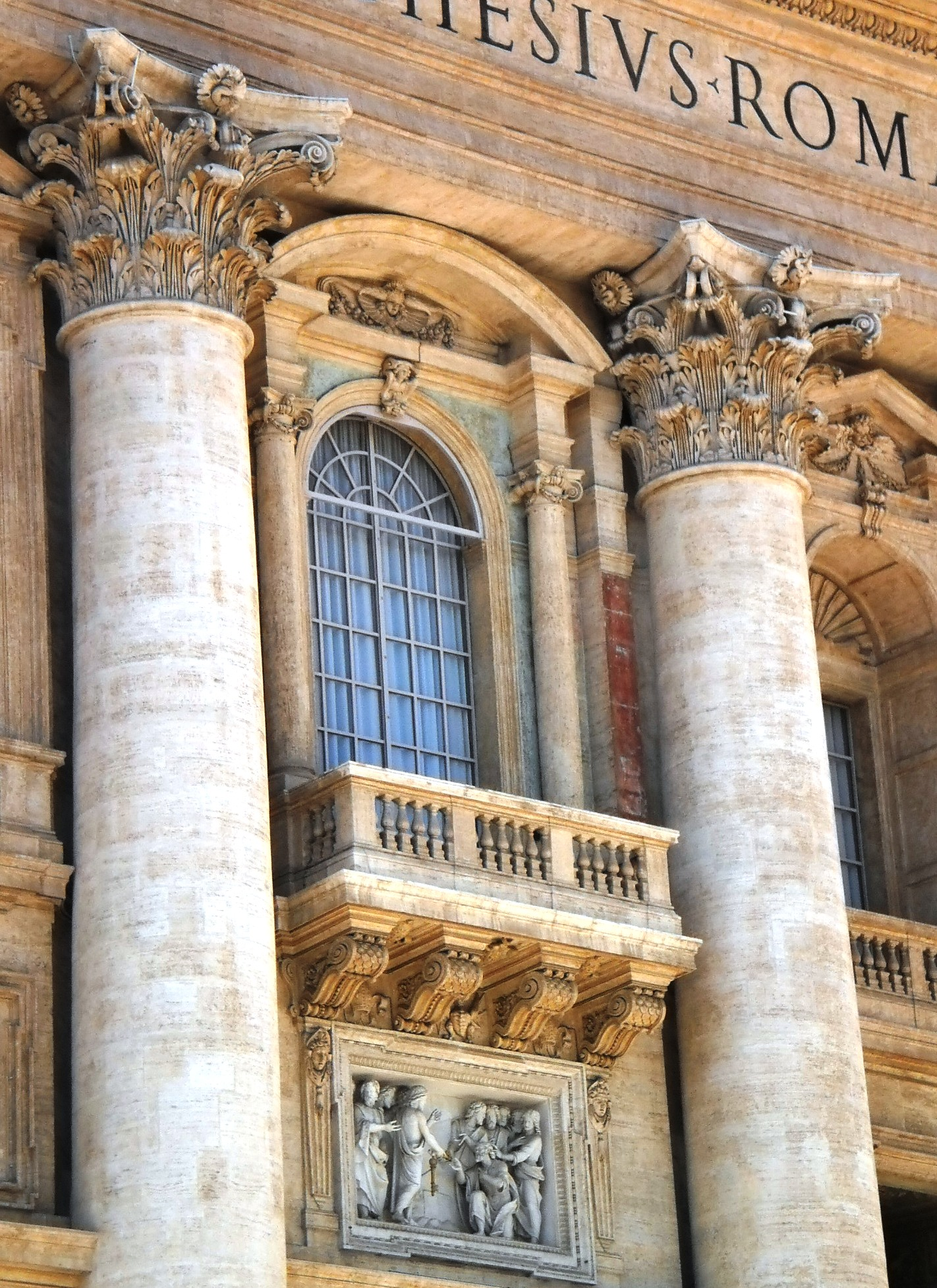 The central balcony of St. Peter's Basilica